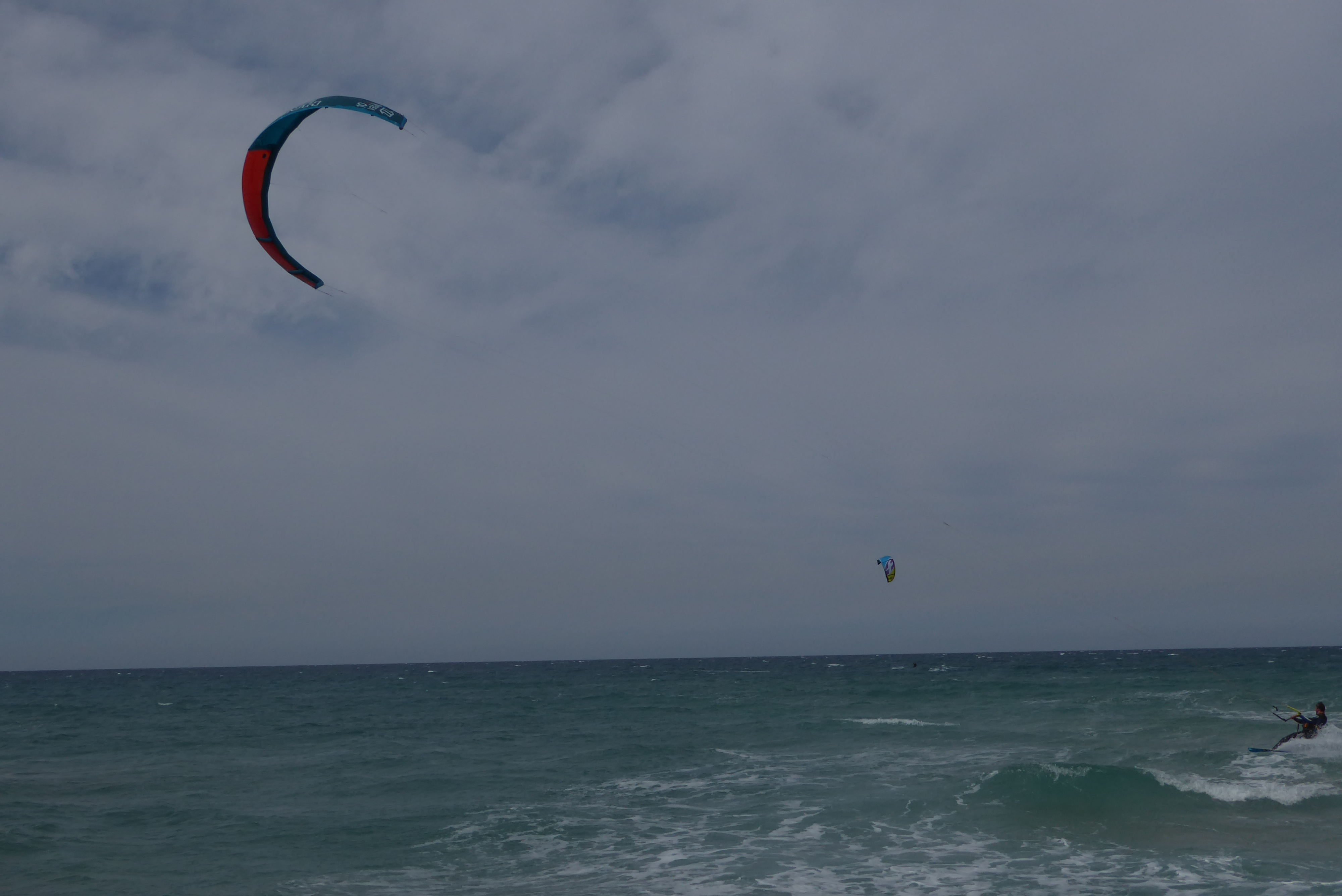 Beaches of Israel